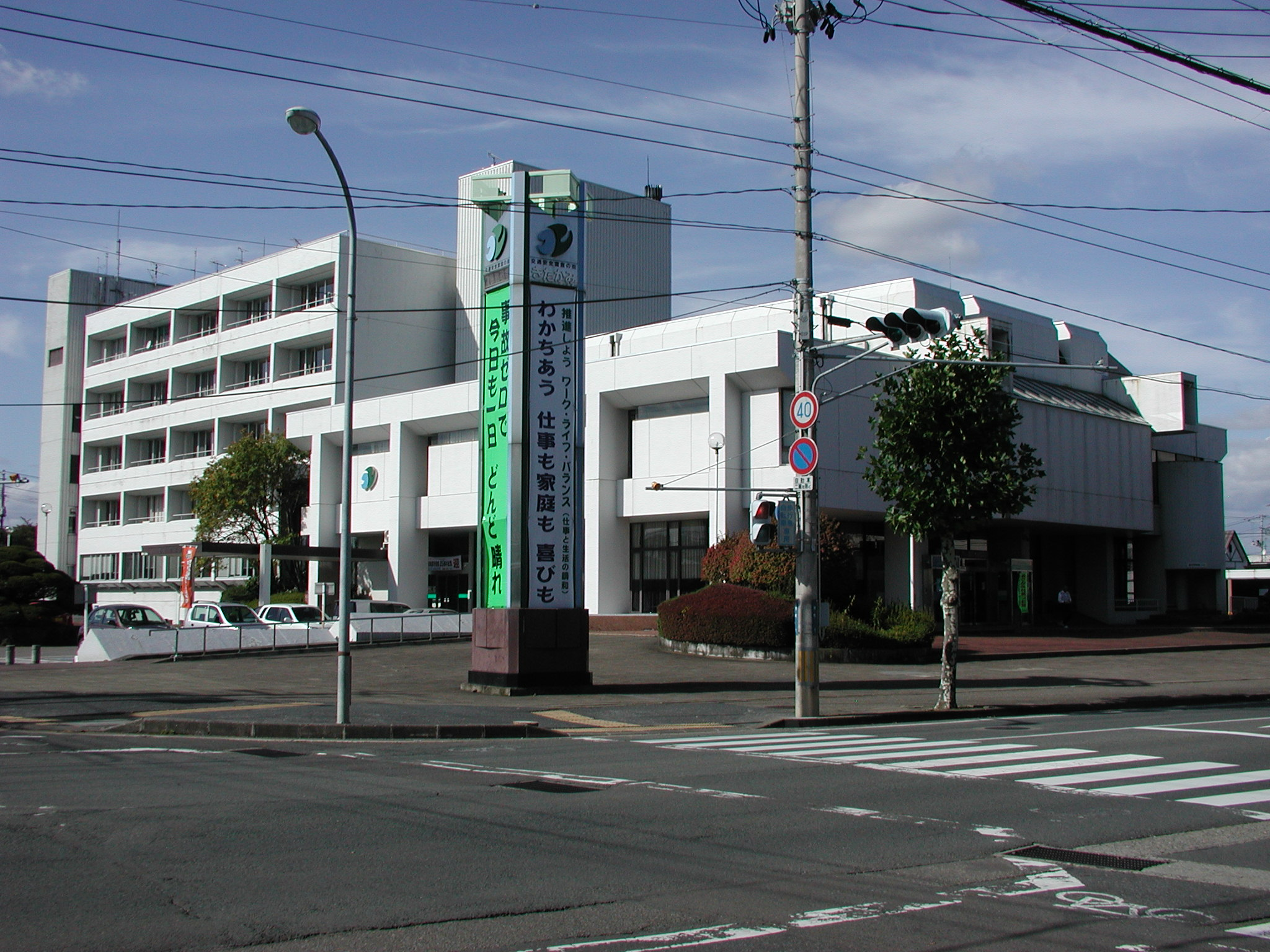 Kitakami City Office